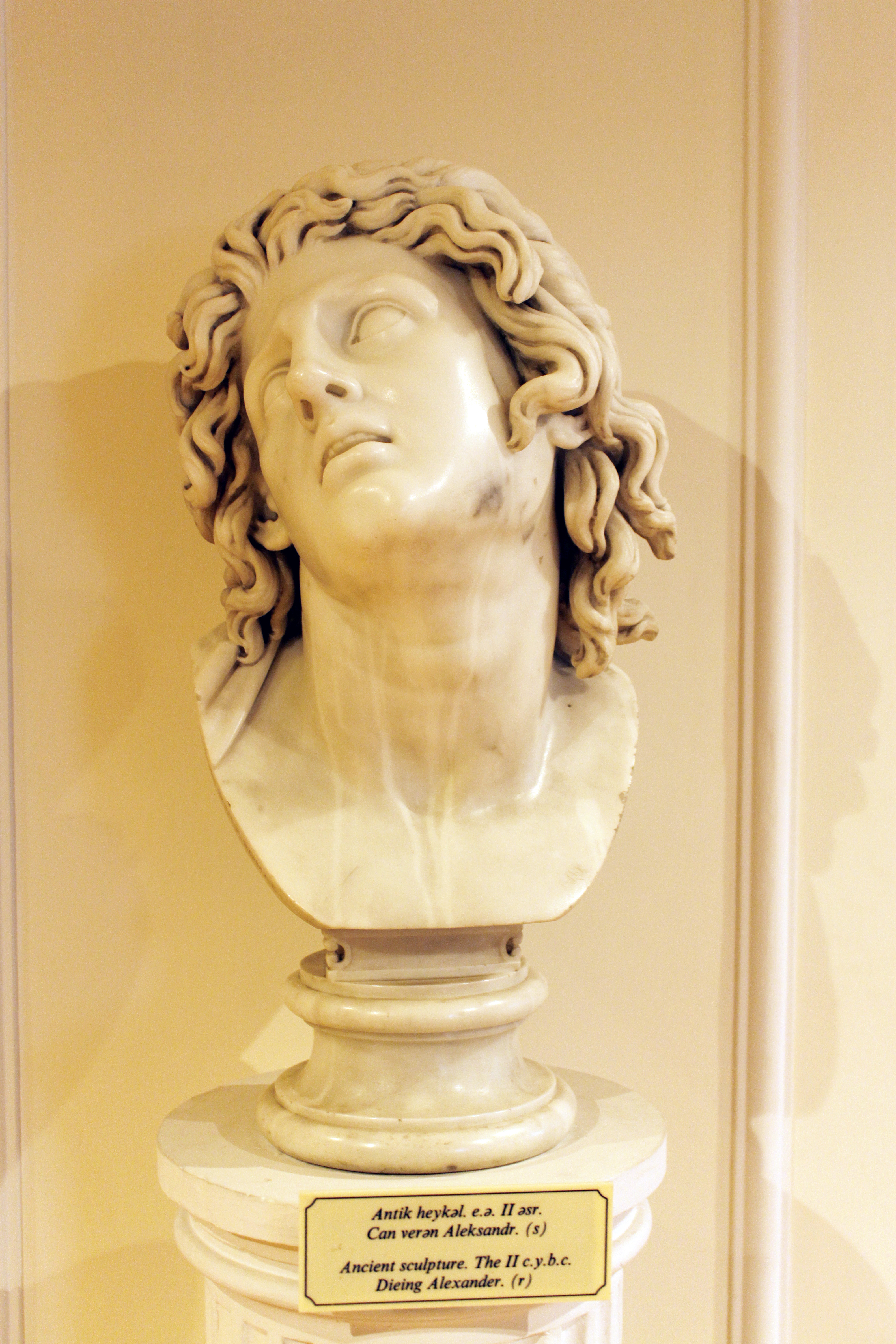 Dying Alexander, marble copy of the 2nd century BC work by unknown Greek sculptor. National Art Museum of Azerbaijan.